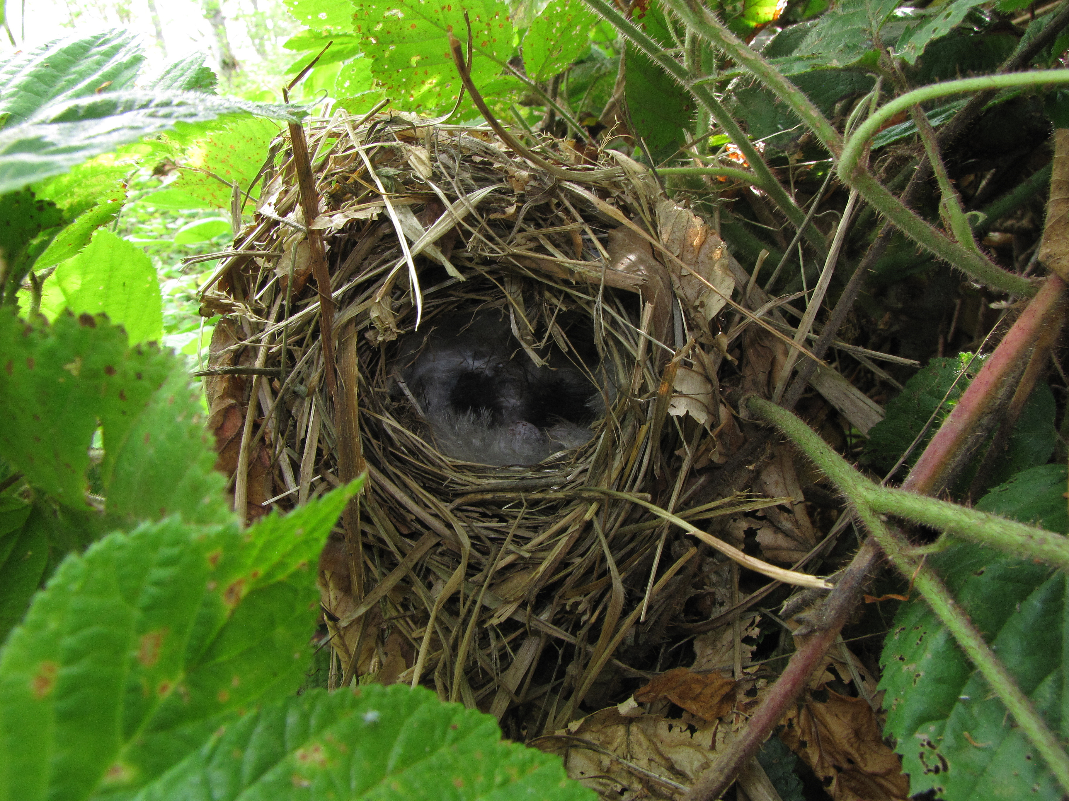 Common Chiffchaff Phylloscopus collybita, Serbia